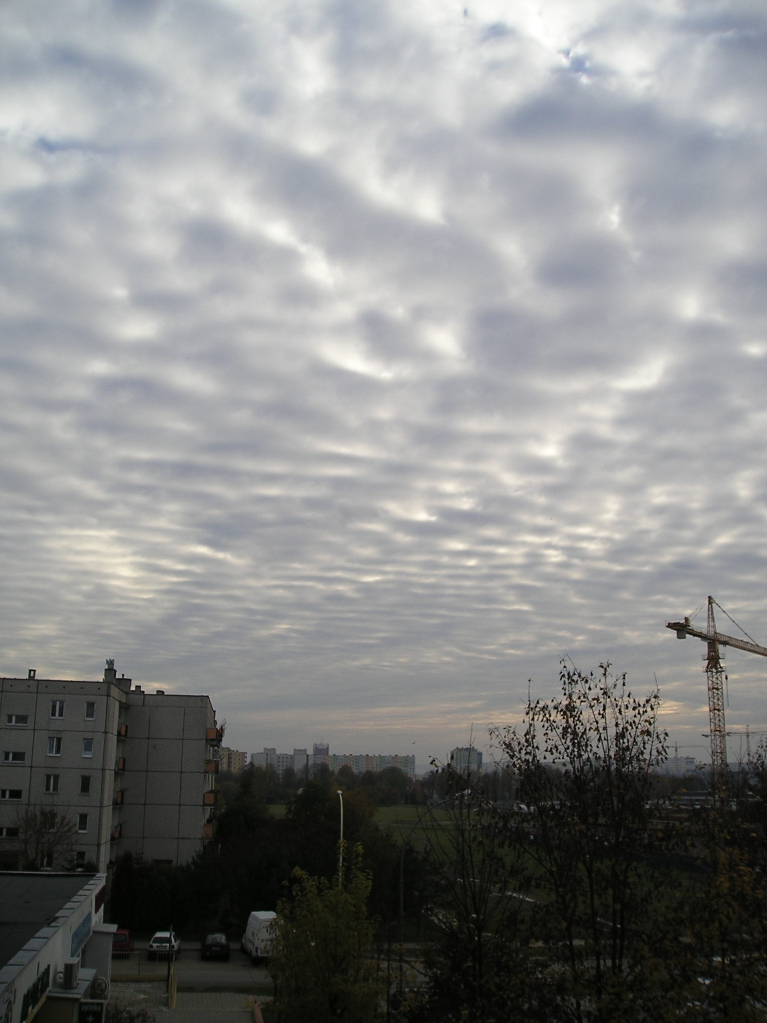 Clouds over Rzeszów, Poland